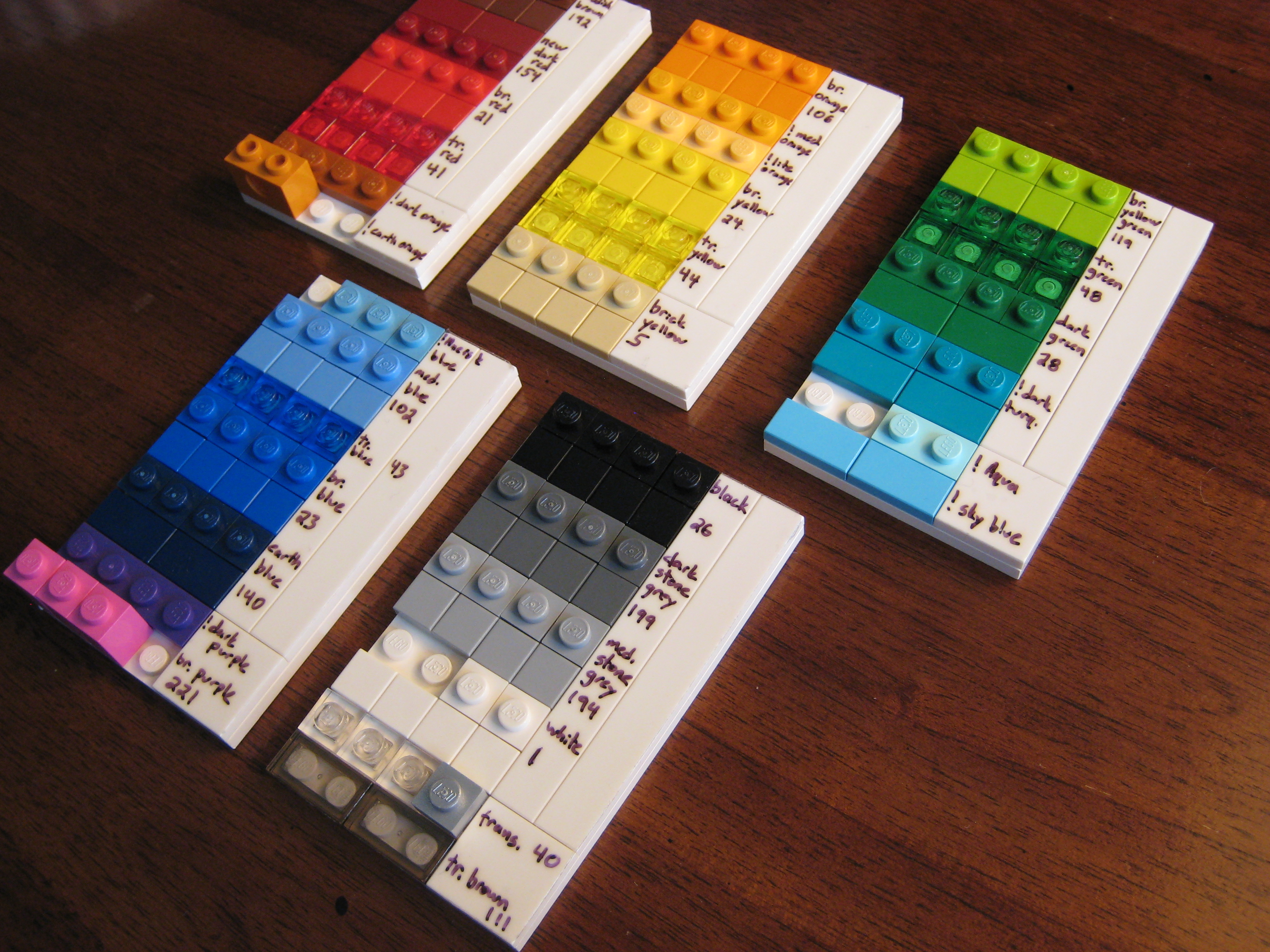 All the color Lego made in 2010, and a number of colors no longer made (and thus sourced from ).